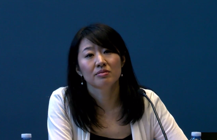 Naomi Koshi speaking at Japan Update 2016 at Australian National University